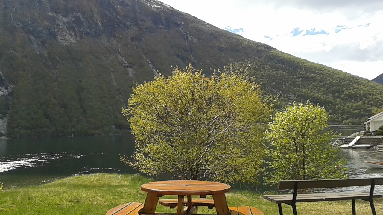 view of Ardalsvatnet in june 2015